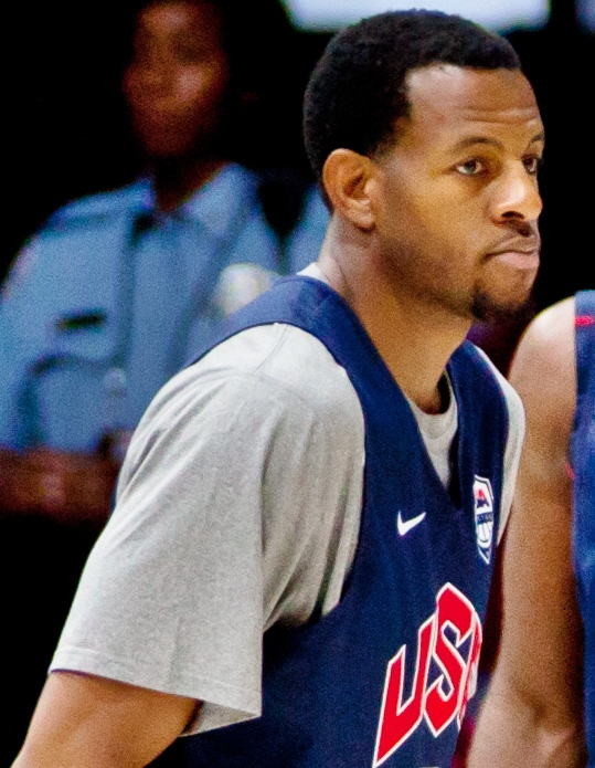 Andre Iguodala during a pre-Olympics Team USA scrimmage on July 14, 2012.